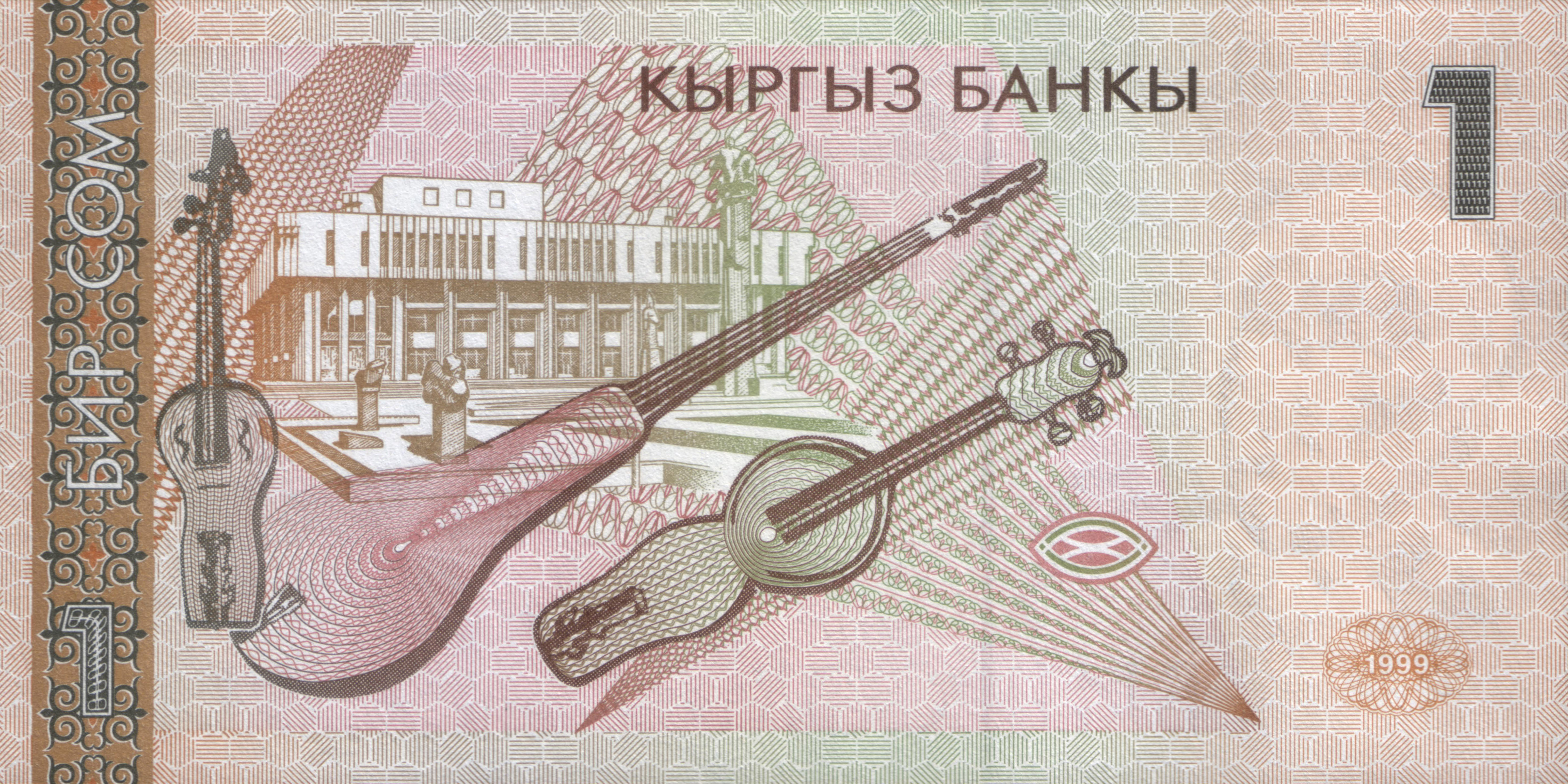 1 som of Kyrgyzstan (1999)